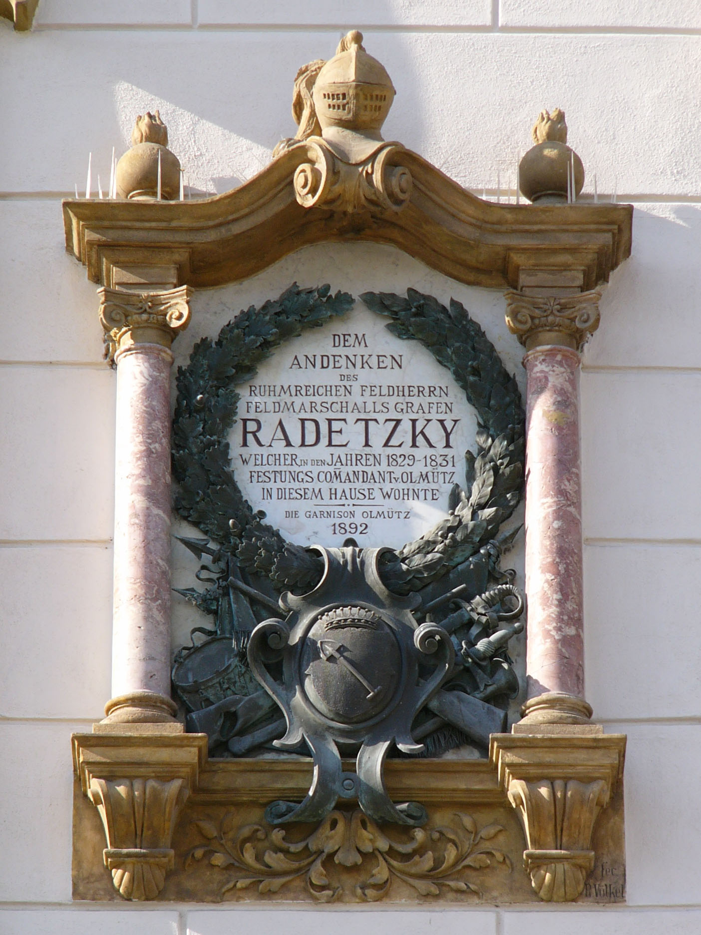 Joseph Radetzky von Radetz - memorial plaque in Olomouc (Czech Republic).